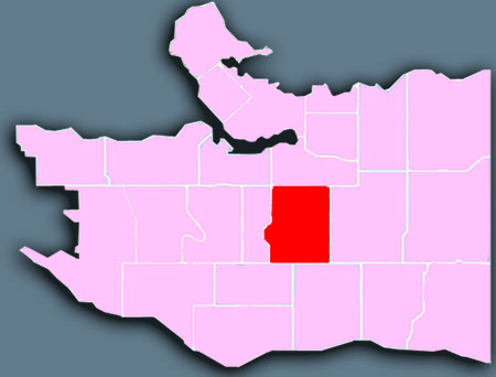 Riley Park-Little Mountain neighbourhood of Vancouver.